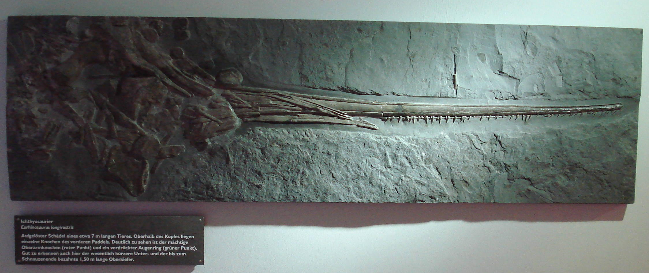 fossil of eurhinosaurus